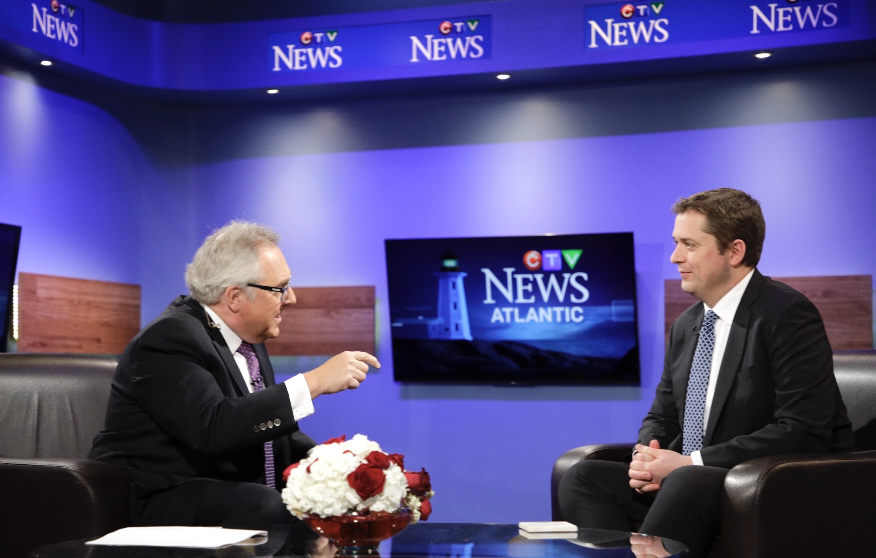 Andrew Scheer being interviewed by Steve Murphy on CTV Atlantic in Nova Scotia. The interview is available at [1]